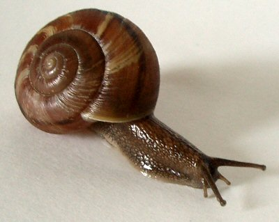 カタツムリ. A snail in south-east of Hyogo, Japan. It may be Euhadra sandai or Euhadra subnimbosa. I first uploaded this photo to ja-wikipedia 2004-09-03T08:22:34.